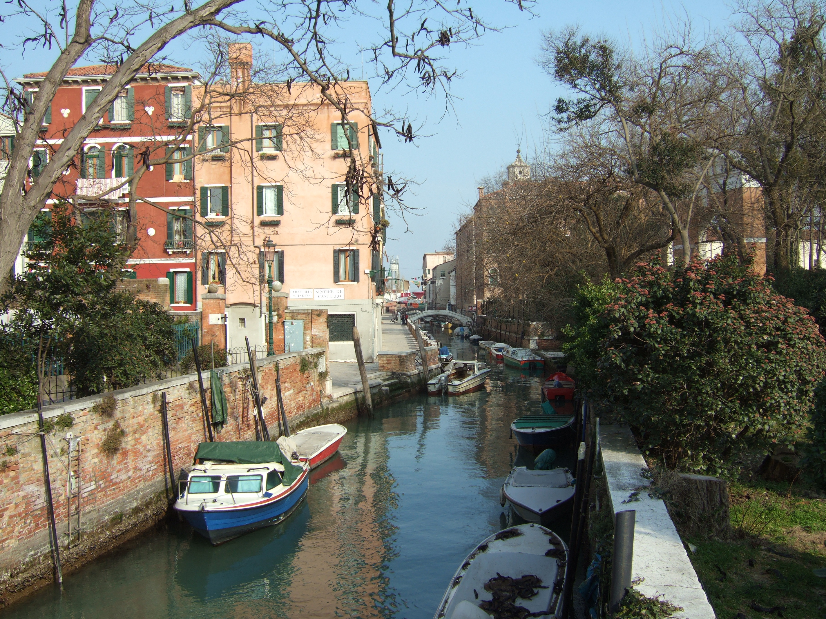 Rio di S. Isepo with Ponte S. Isepo, eastern view from Ponte dei Giardini (Venice)